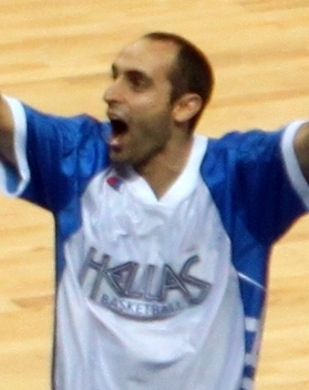 The Greek National Team of Basketball... Greece edged Turkey in a EuroBasket Quarter-Final thriller. [Turkey 74-76 Greece, Eyrobasket 2009, Poland] Turkey 76-74 Greece